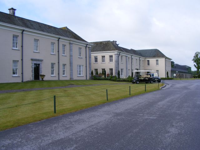 Castlemartyr Hotel (1) - Baile na Martra